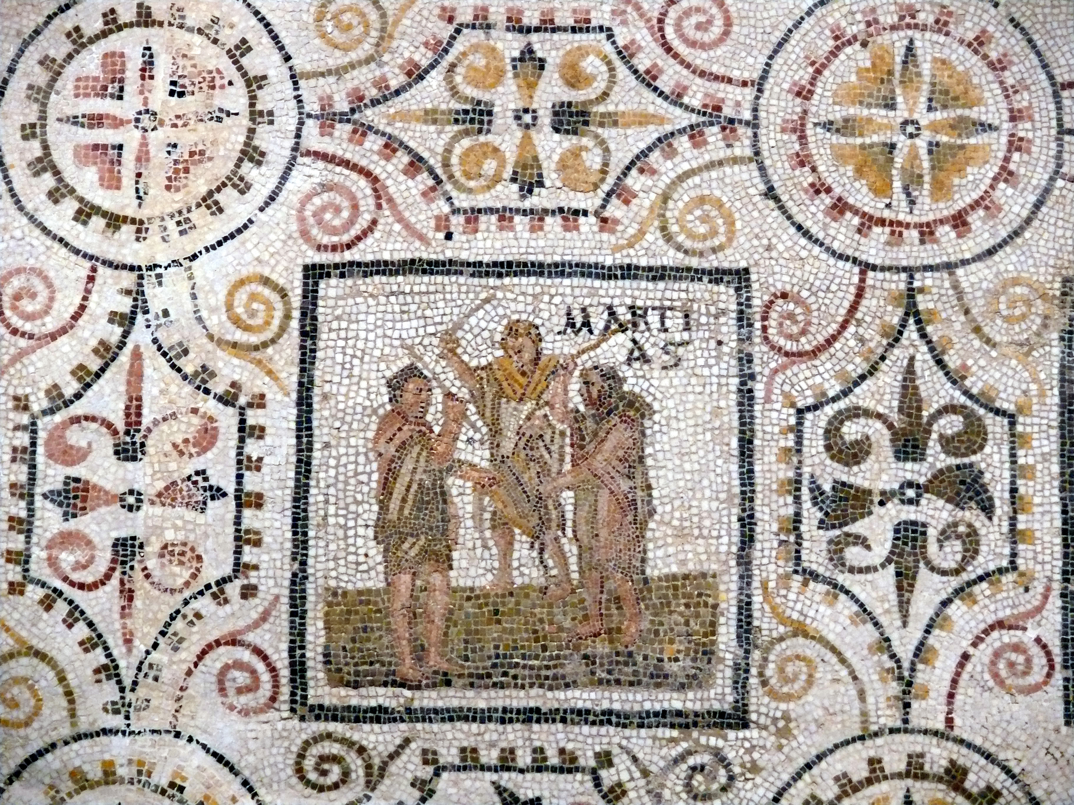 Mosaic with the months of the year, starting with the Roman first month March. First half third century El Jem Archeological Museum of Sousse